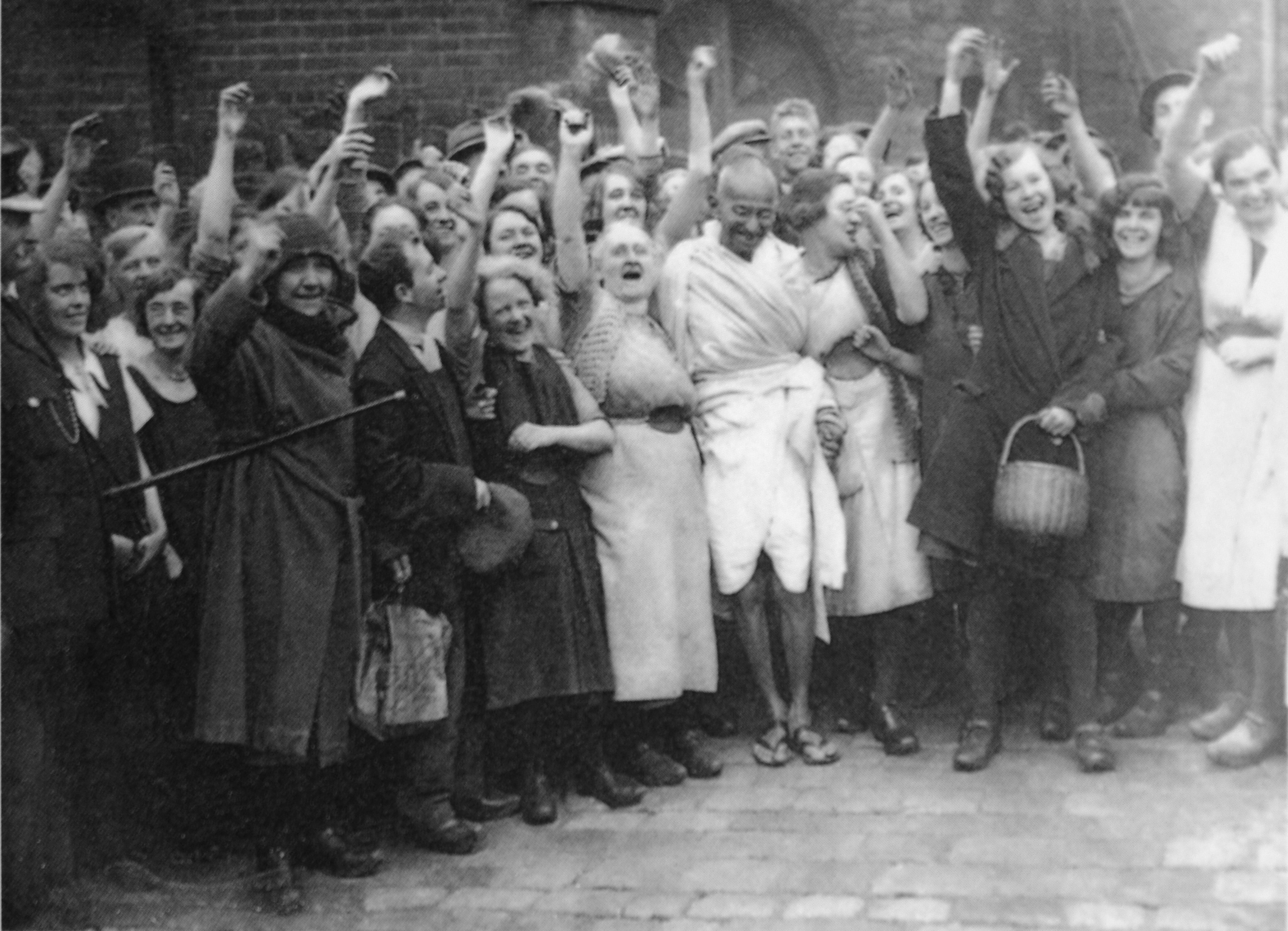 Mahatma Gandhi with textile workers at Darwen, Lancashire, England, September 26, 1931.